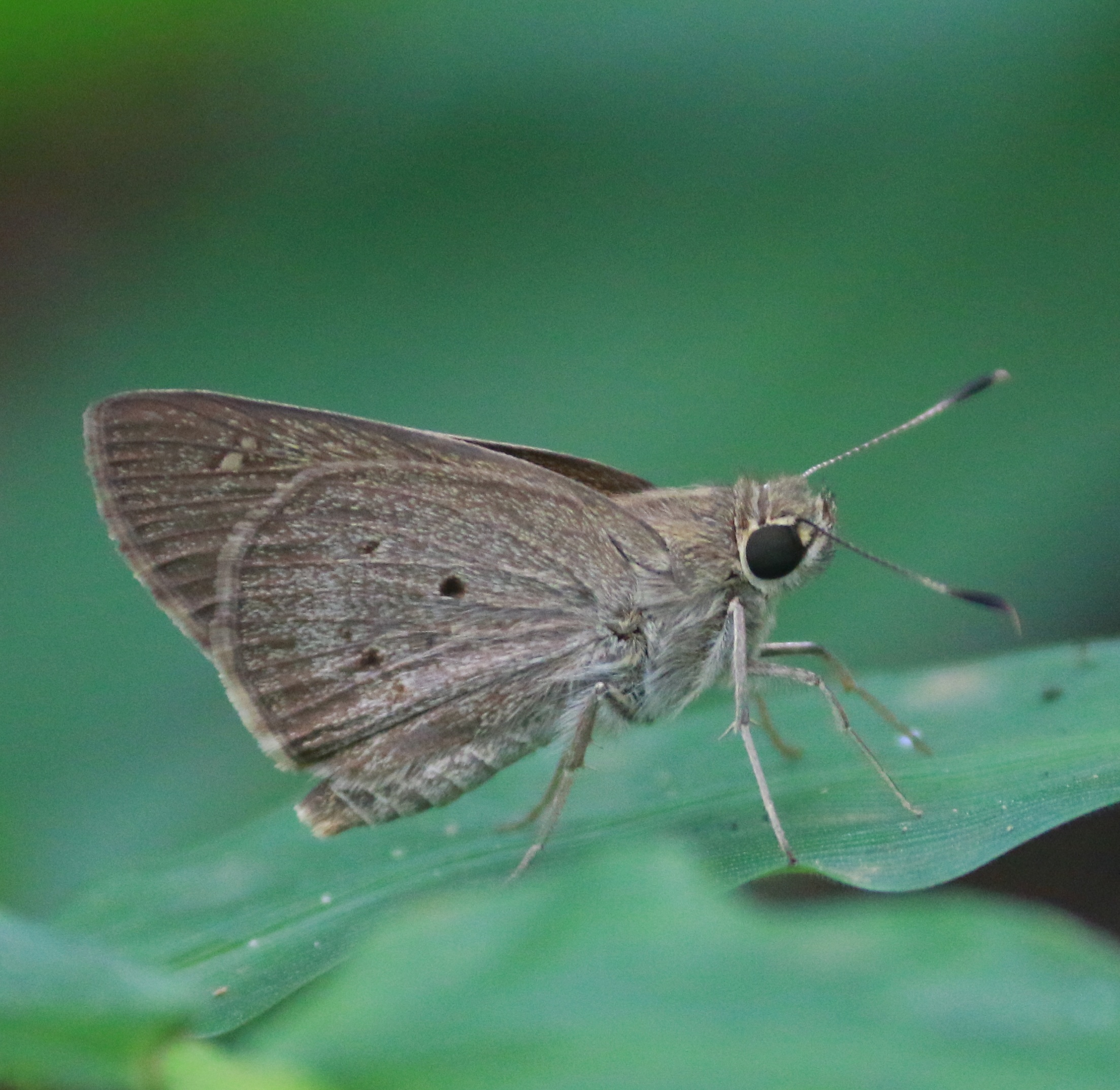 Indian Palm Bob